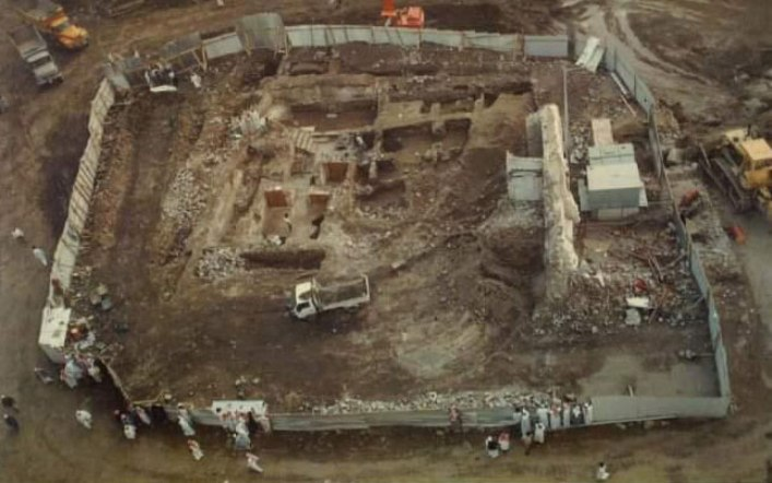 The House of Khadijah The Prophet Mohammad's Wife in Mecca after Demolition by the Wahhabis